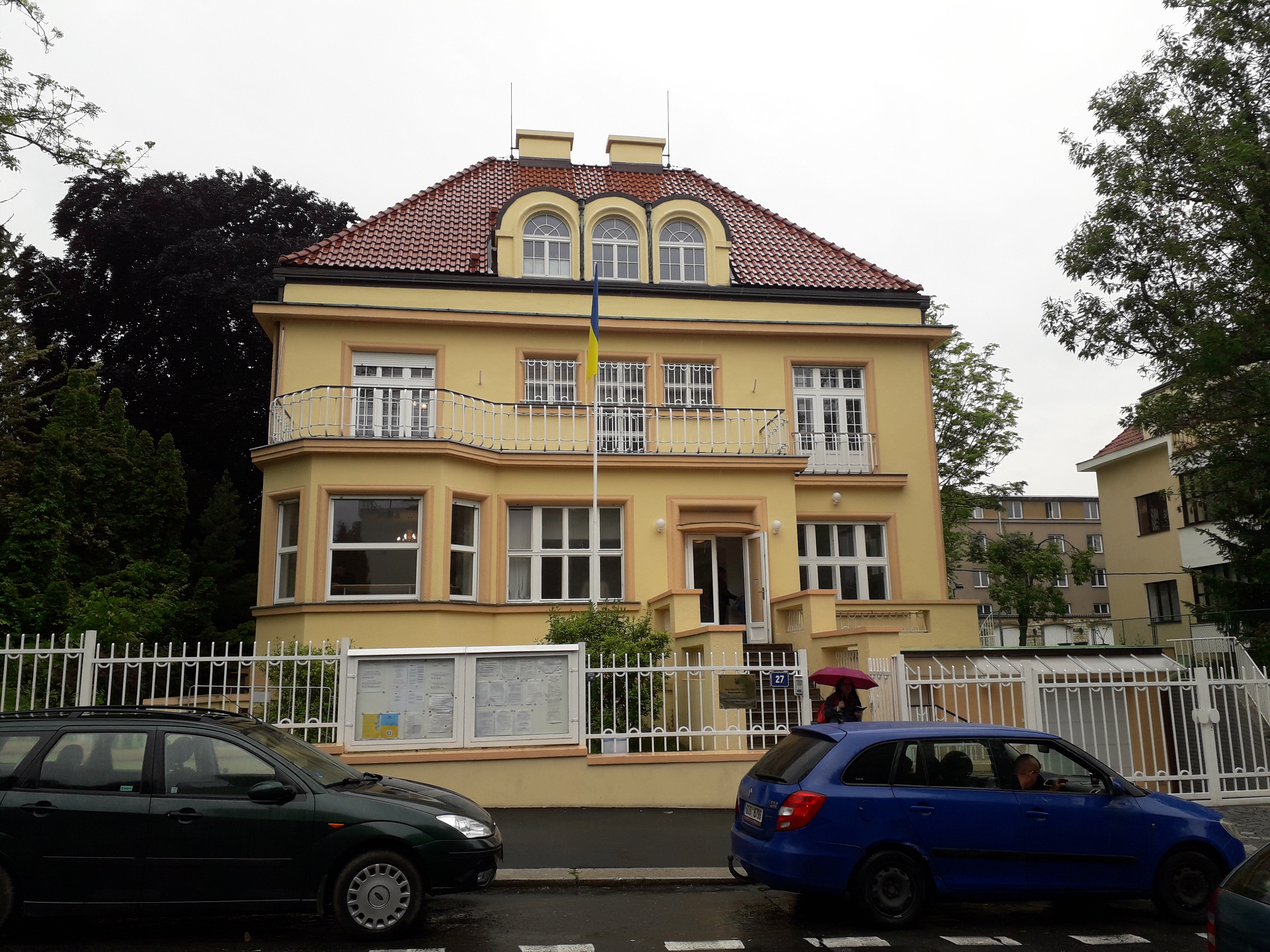 Consular division of the Embassy of Ukraine in Prague